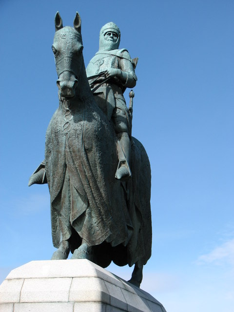 Robert The Bruce Statue of Robert The Bruce at The Bannockburn Heritage Site Nr. Stirling